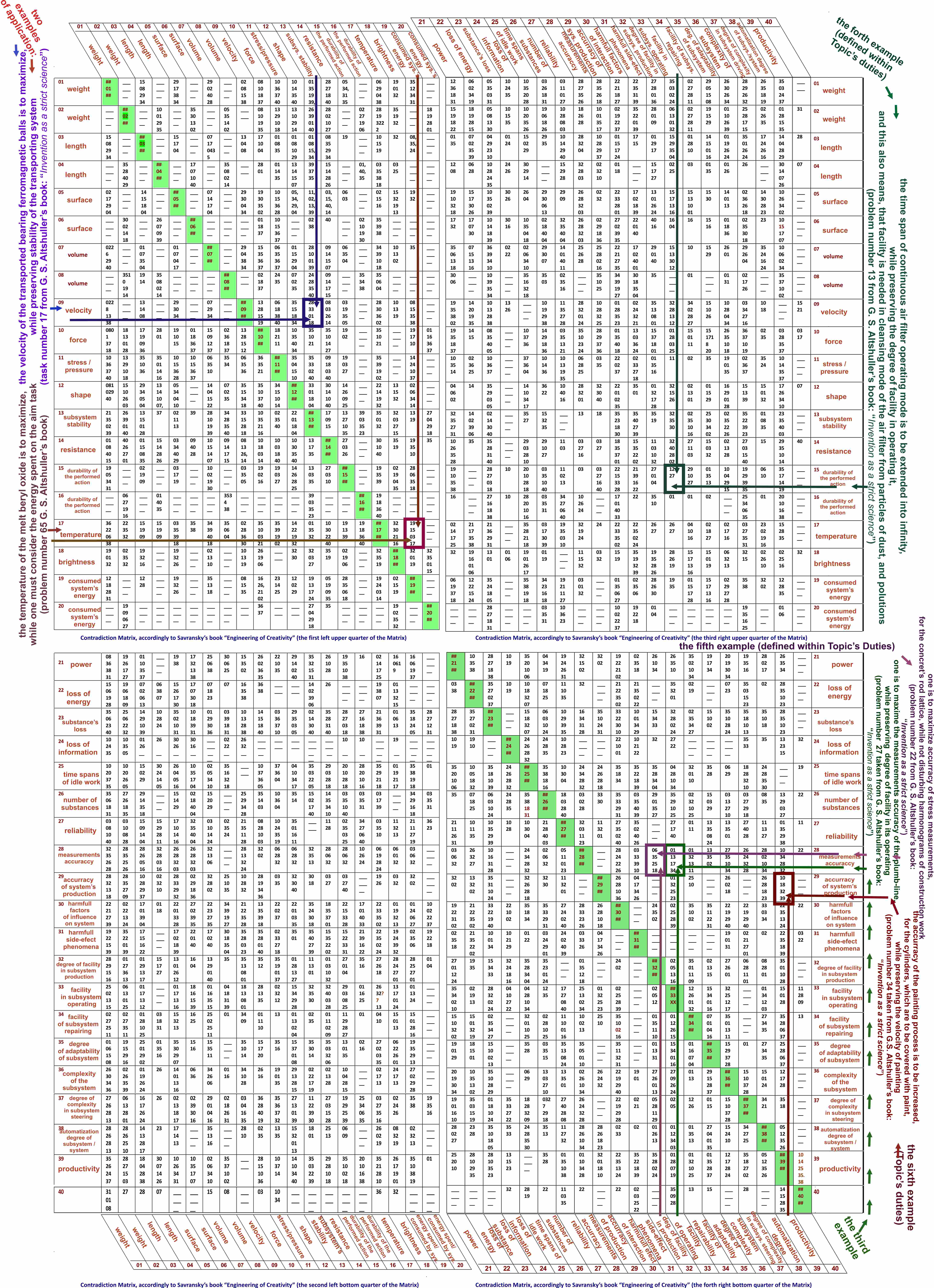 This is a presentation of Contradiction Matrix, used in TRIZ method, a method of Engineering Creativity and Inventive Thinking, 360 dpi, with 12% of loseless JPEG compression, and within contents of this Contradiction Matrix (accordingly to Contradiction Matrix presented in Savransky book: "Engineering of Creativity"), I have also put 6 the most prominent examples of its use.